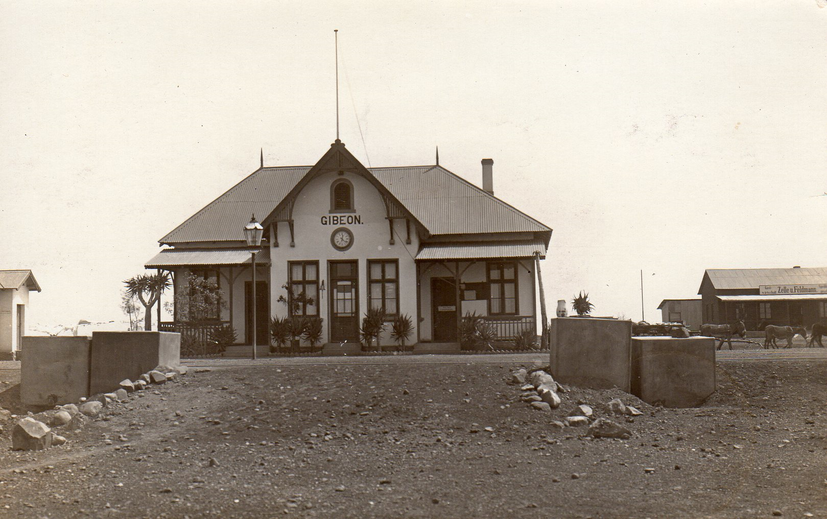 Gibeon station